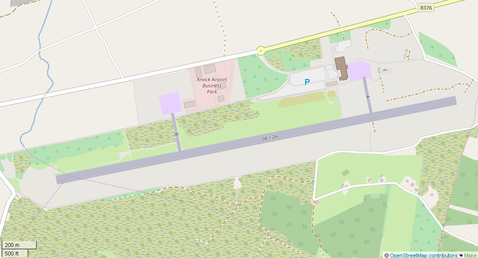 Map of Knock Airport